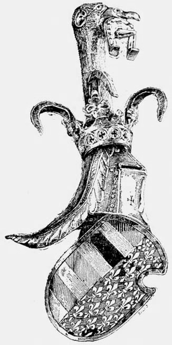 A magyar Anjouk-címere. Zománczozott ezüst ötvösmű az aacheni székesegyház kincstárában. Balra fordult tárcsa-pajzsot ábrázol jobboldali mezejében a vörös és fehér csíkokkal, a baloldaliban kék alapon arany liliomokkal; a pajzsot zárt csöbör-sisak fedi arany koronával és oromdíszében három strucztoll között aranyos patkót tartó struccfejjel. A királyi koronaból kinövő két strucctollal, hosszú nyakon struccfejszájában patkóval Károly Róbert király személyes sisakdísz ábrázolása volt. A bestiáriumokban a strucc azzal, hogy mindent megeszik, mindent megemészt, még a vasat is, az erőt szimbolizálja; motívuma arra utal, hogy Károly Róbert minden ellenlábasát sorra legyűrte, szinte legyőzhetetlen volt.